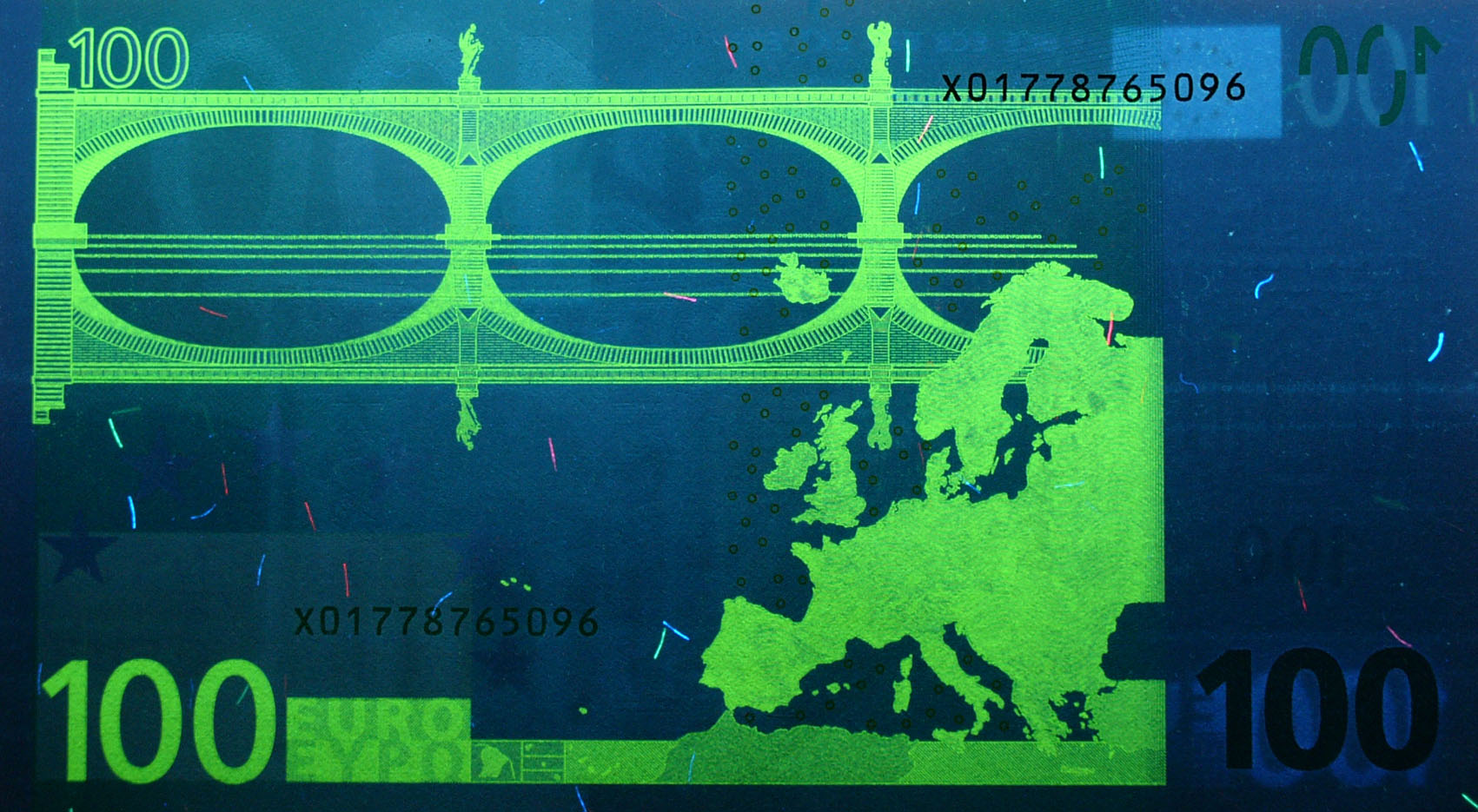 100-euro banknote under fluorescent light (UV-A)